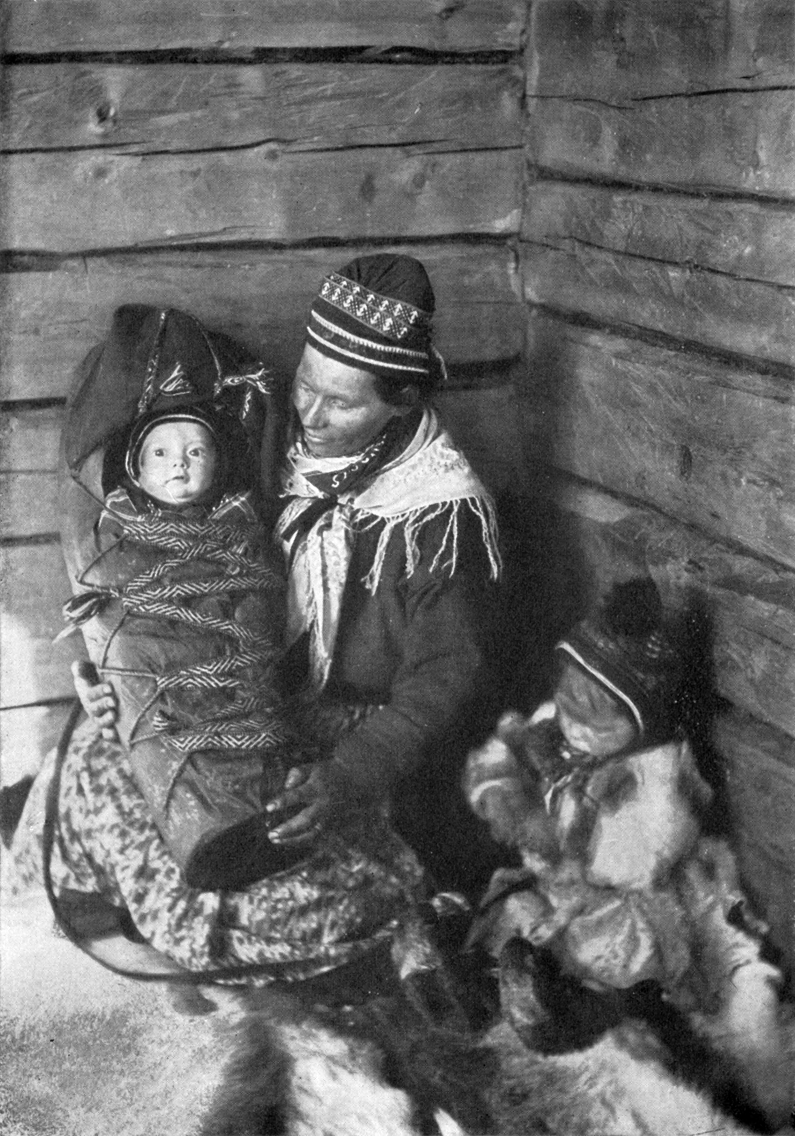 WARM HEARTS OF THE NORTH. The Lapland father may measure his wealth in herds of reindeer, in hides and pelts, but the Lapland mother knows that her bright-eyed, smiling baby and her sturdy two-year-old are the treasures beyond price.